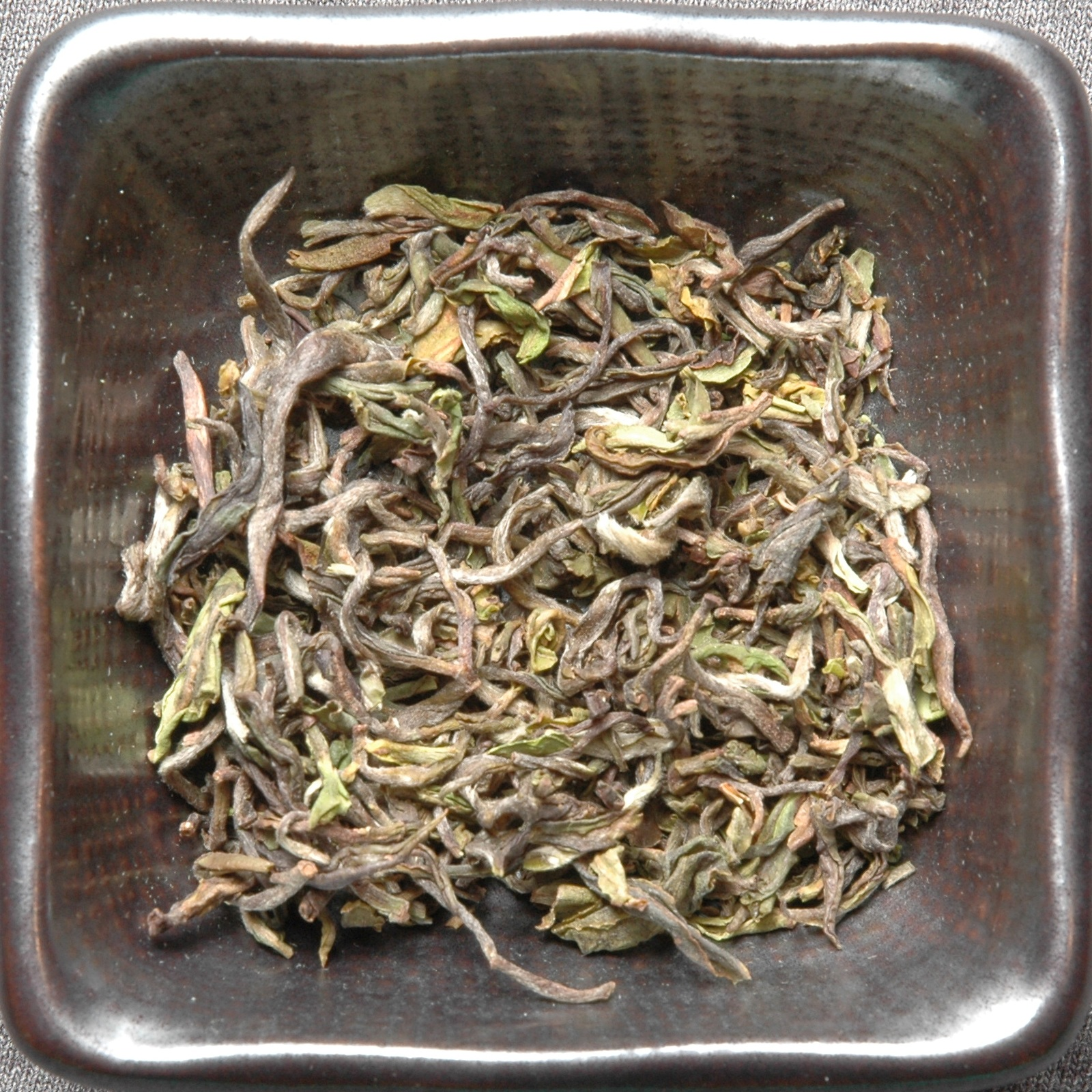 Darjeeling tea, first flush 2007, Risheehat Estate, SFTGFOP1 CH/FL, dry leaf